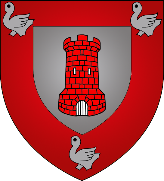 Coat of arms of the municipality of Tandel, Luxembourg